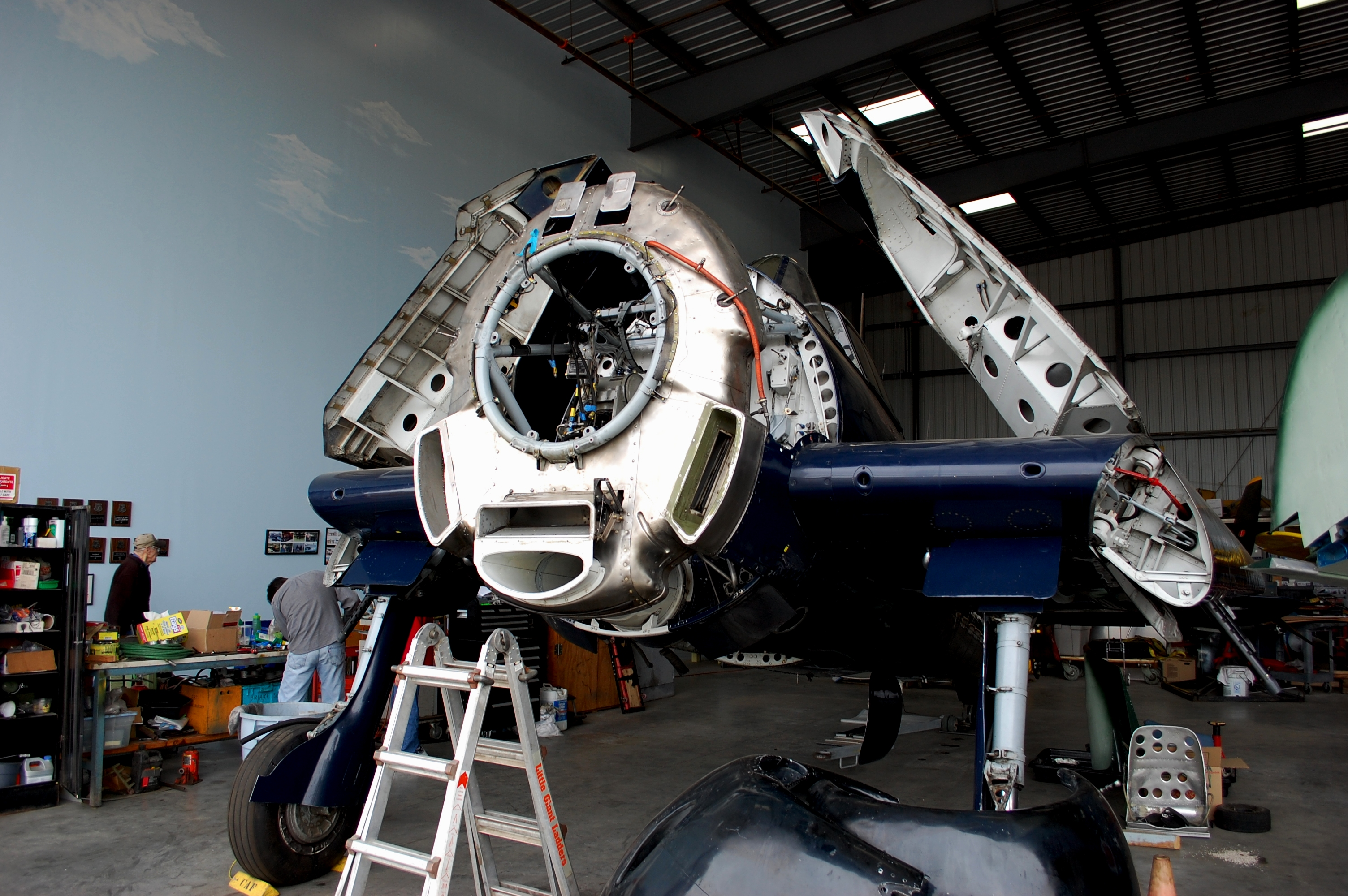 The Commemorative Air Force, Southern California Wing's Grumman F6F-5 Hellcat as seen with its R-2800 removed.